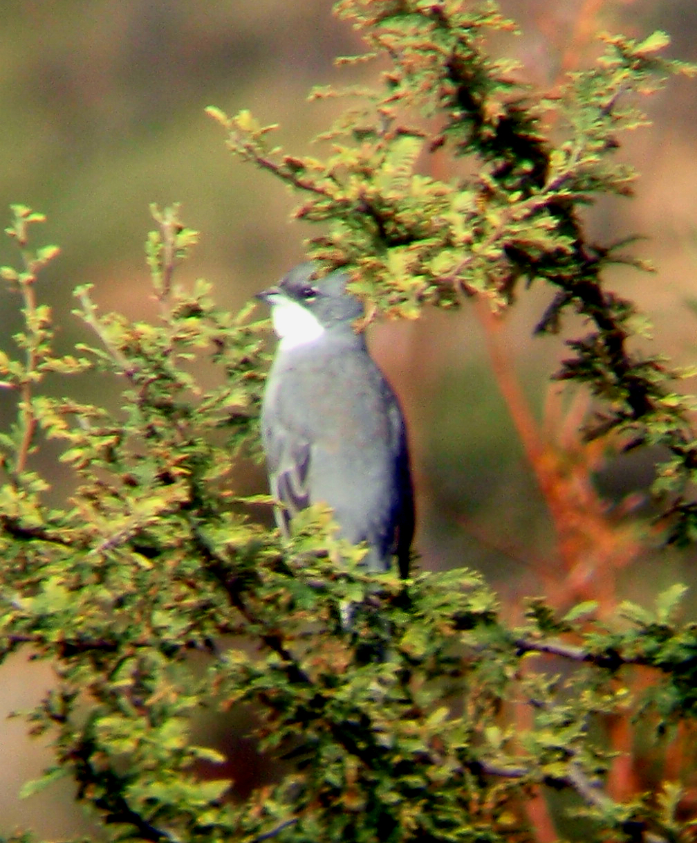 A Common Diuca-finch near Rio de los Cipreses National Reserve in central Chile.